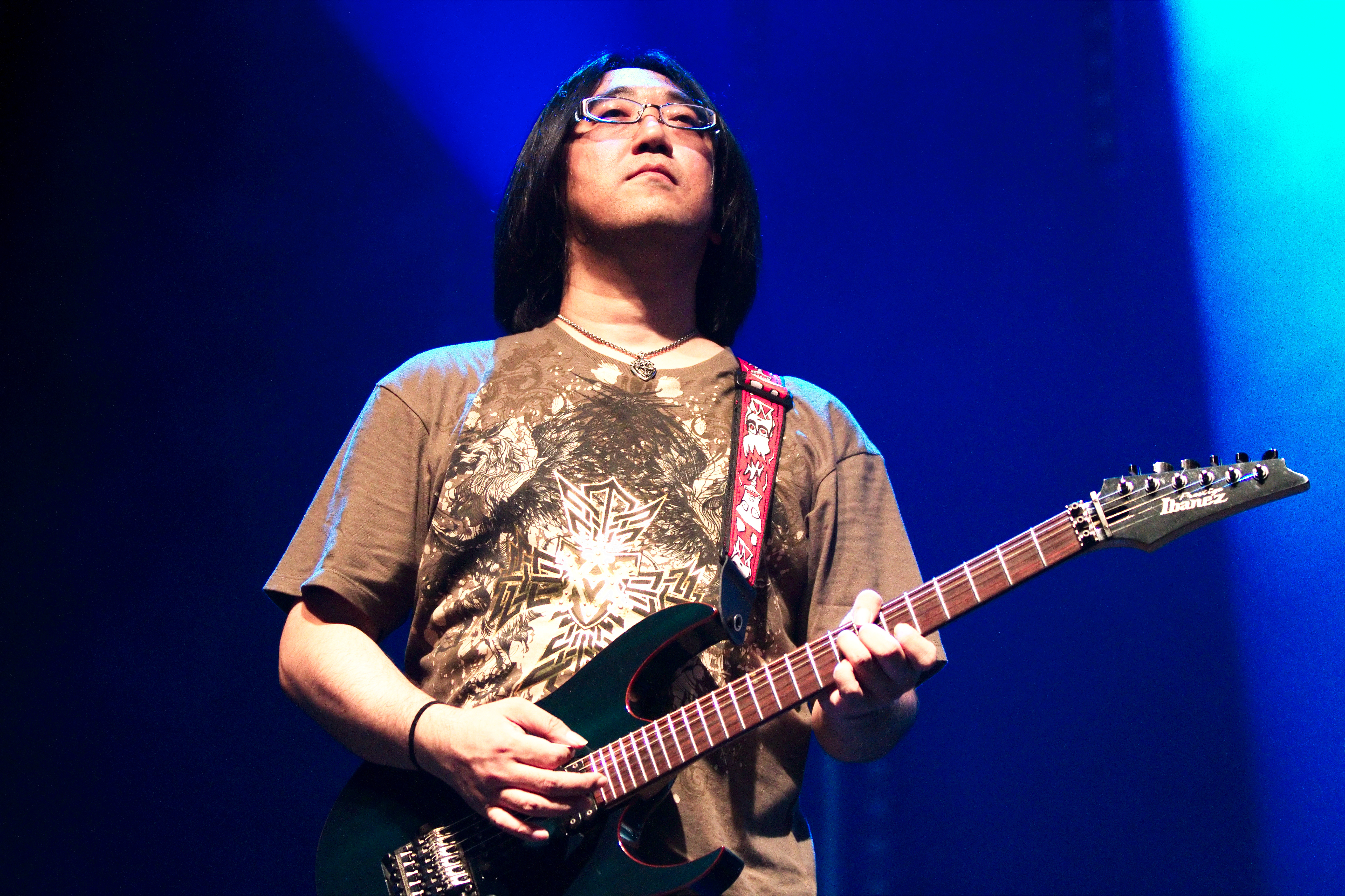 Noriyuki Iwadare (keyboards), Shi On (vocal), Wo-Lya (bass) and Yasufumi Fukuda (guitar) live at Japan Expo 2010 (Paris, France).